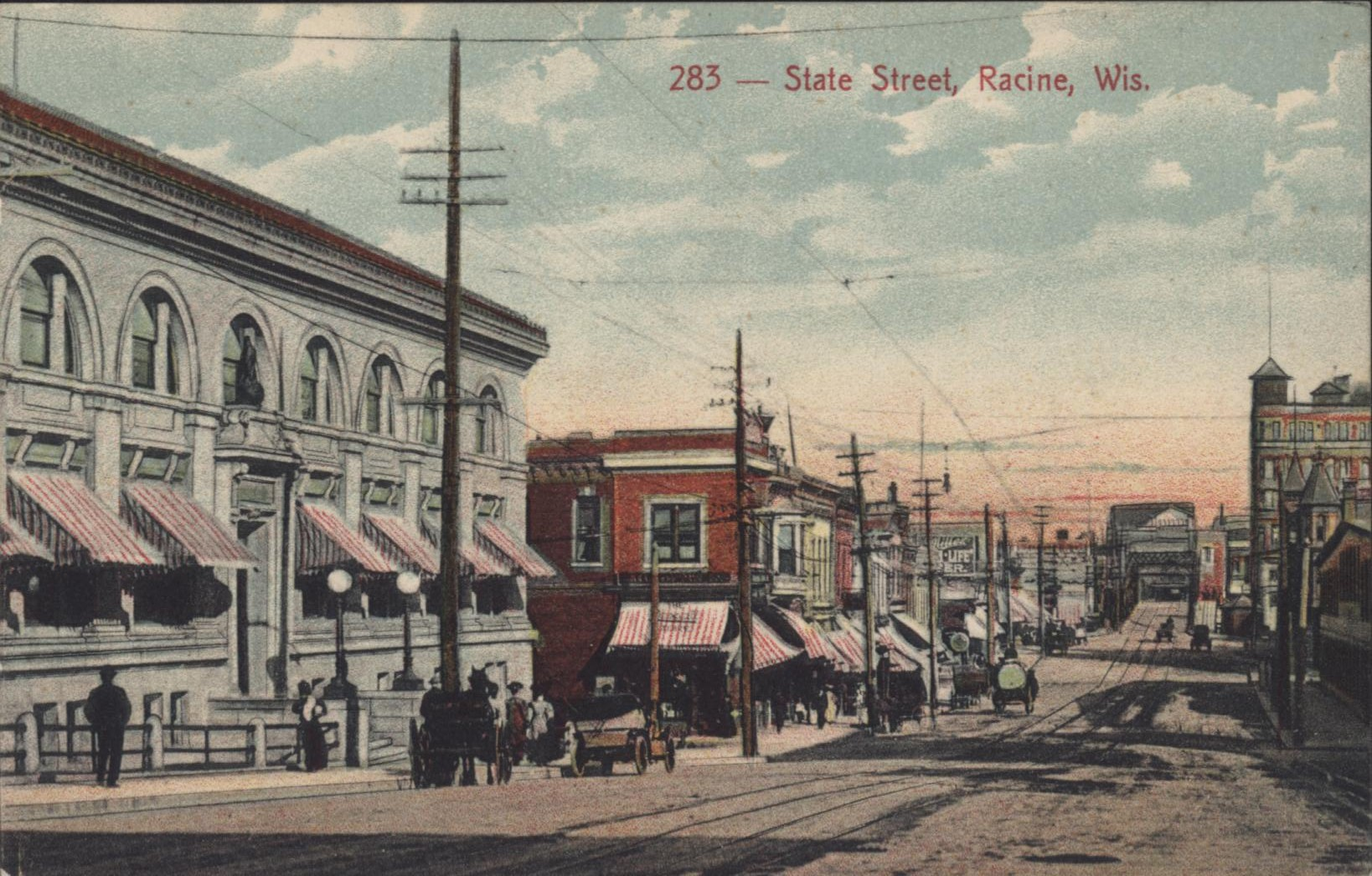 State Street, Racine, Wisconsin, looking east from the other side of the State Street Bridge. On the left is the Case building with the Old Abe eagle statue.